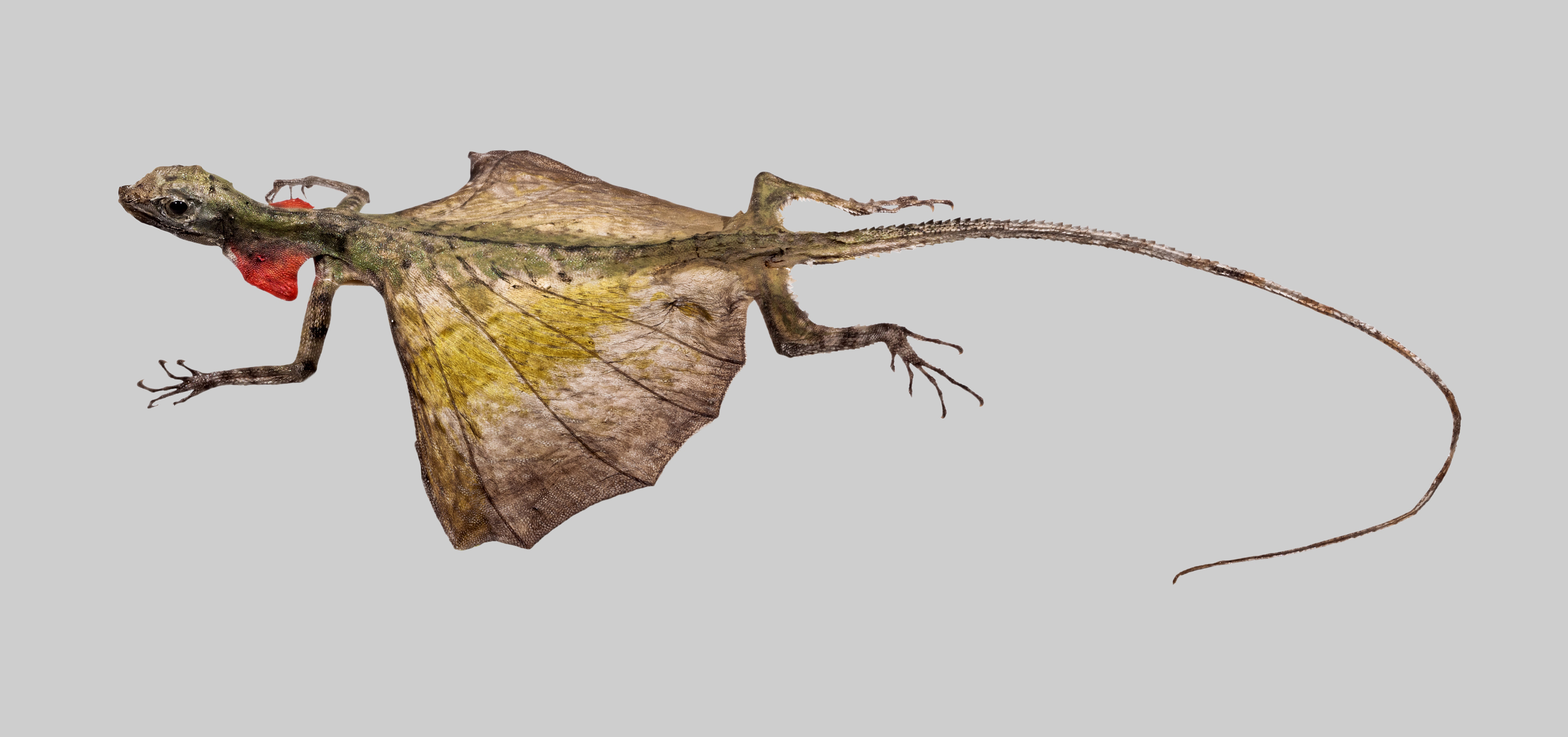 Draco volans Linné, 1758, Common Flying Dragon; Museum specimen; Staatliches Museum für Naturkunde Karlsruhe, Germany..